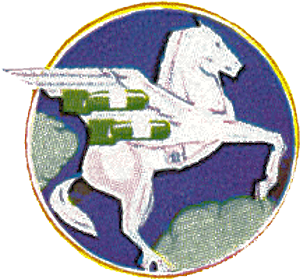 Emblem of the 410th Bombardment Squadron